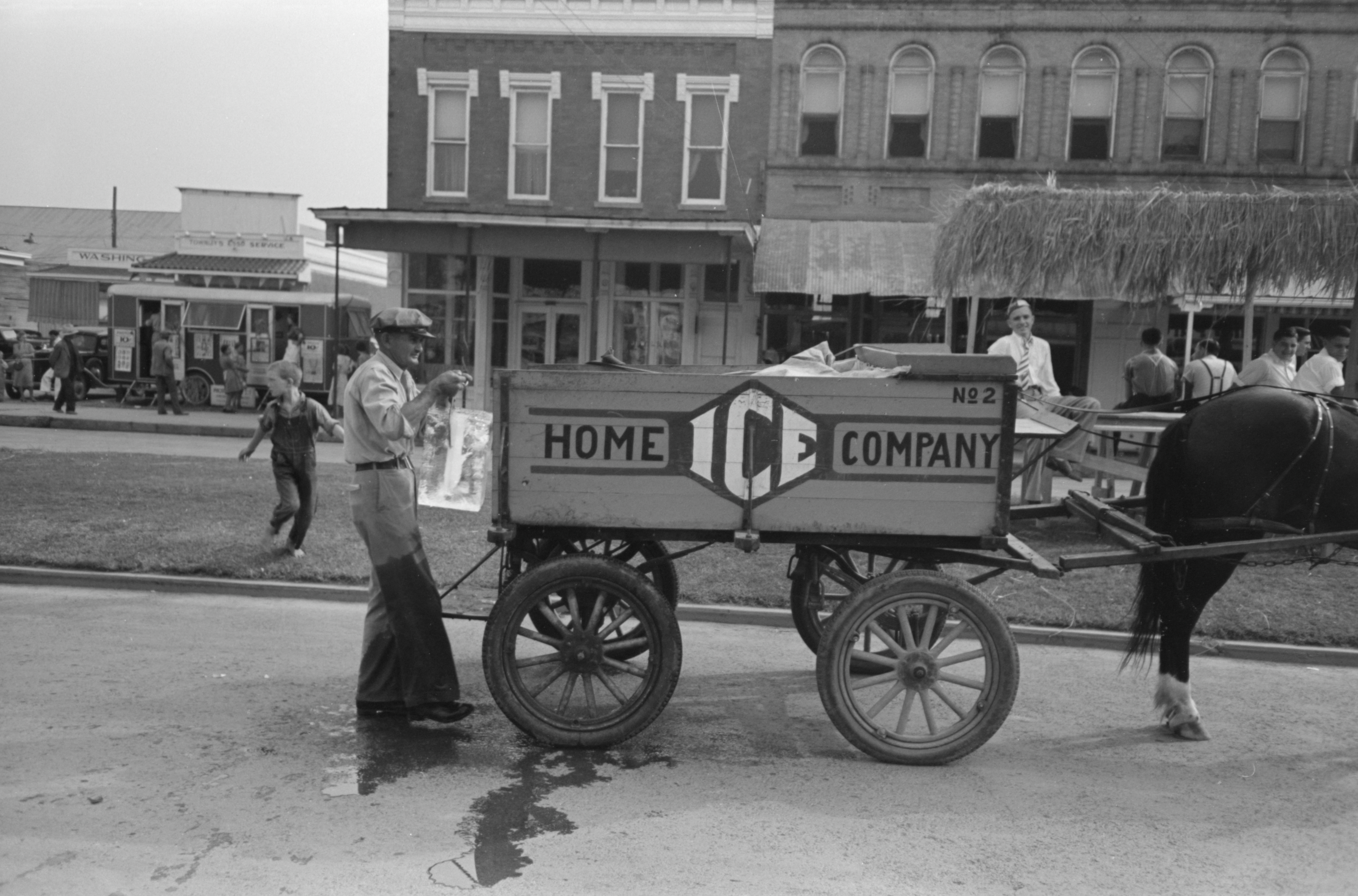 Delivering ice to stands, National Rice Festival, Crowley Louisiana, 1938. Shows iceman holding block of ice in tongs behind horse drawn ice wagon.